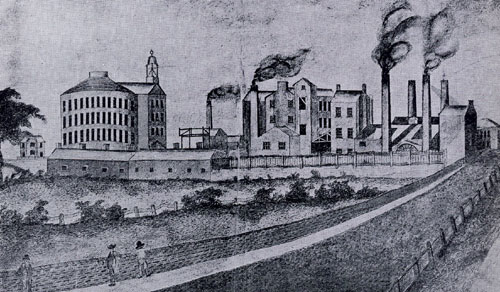 Photograph of a drawing of Round Foundry, Holbeck